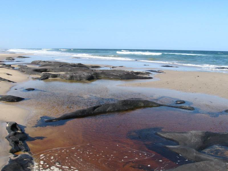 The Coffee Rocks at Broadwater National Park, photo taken by myself